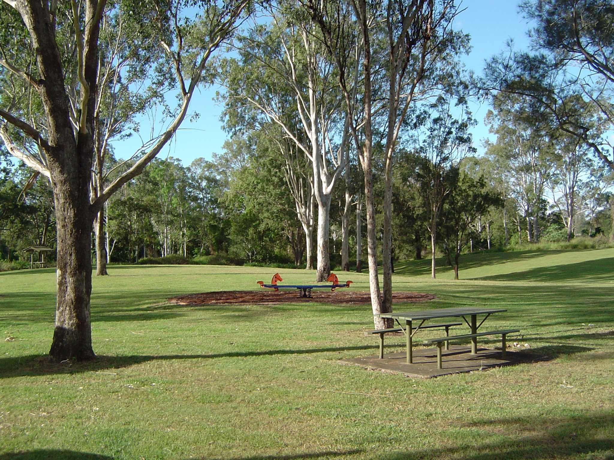 Photo of Maclean Park at South Maclean, Logan City, Queensland, Australia.